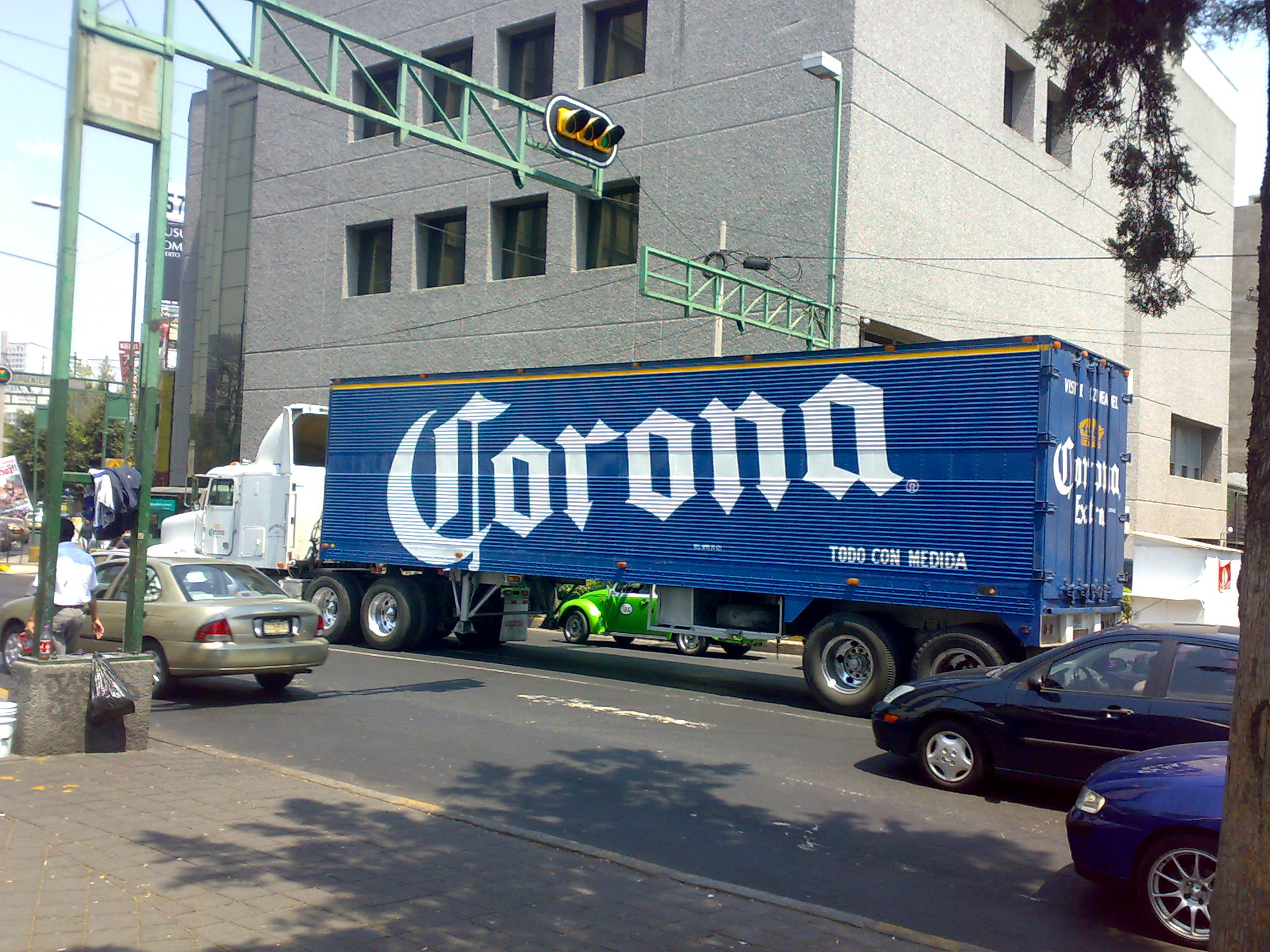 The image shows a Corona truck. Picture taken in Mexico 15. march 2008.